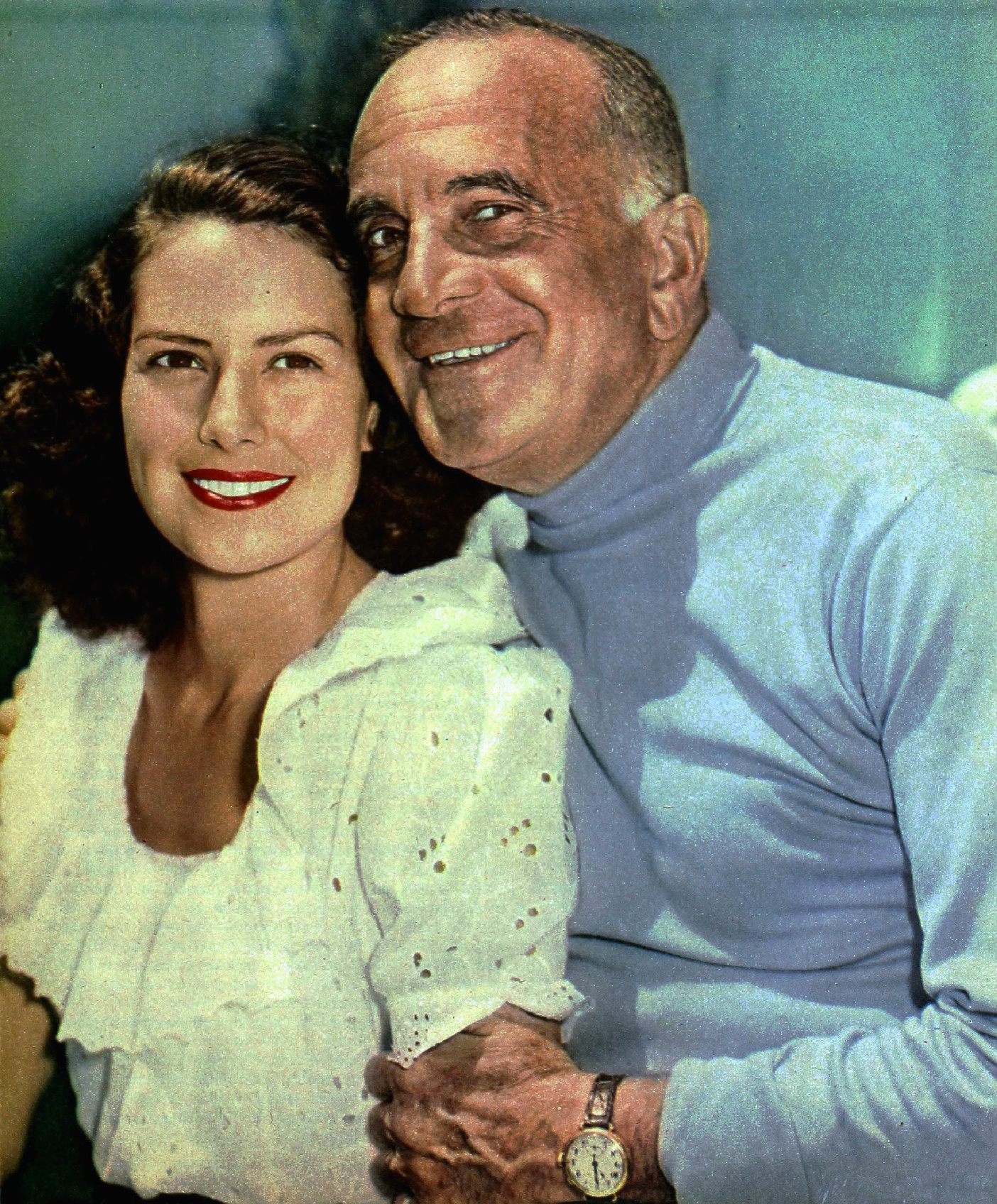 Photo of Al and Erle Jolson.